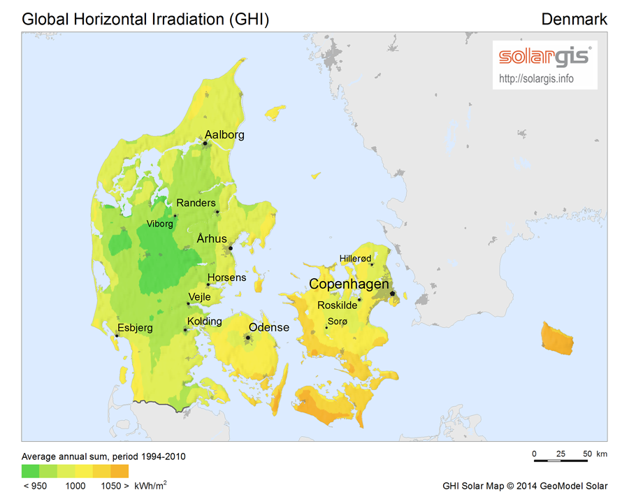 Solar Radiation Map: Global Horizontal Irradiation Map of Denmark, SolarGIS 2014, improved edition